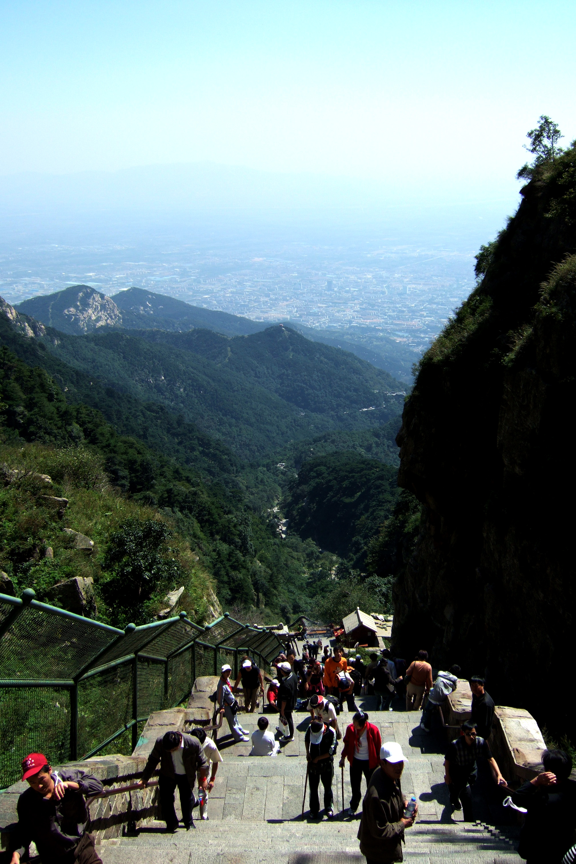 Still many steps left